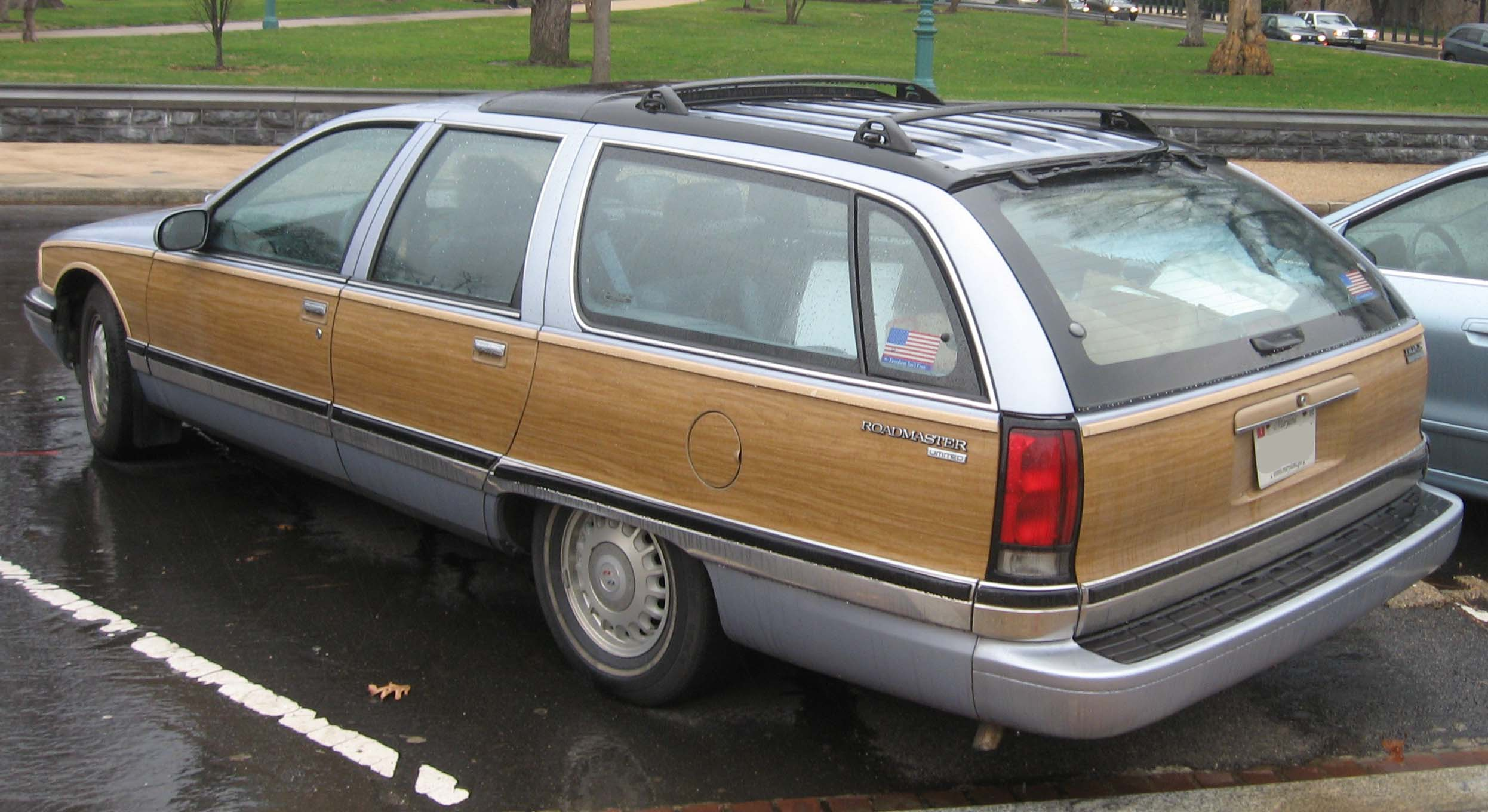 1996 Buick Roadmaster photographed in Washington, D.C., USA.